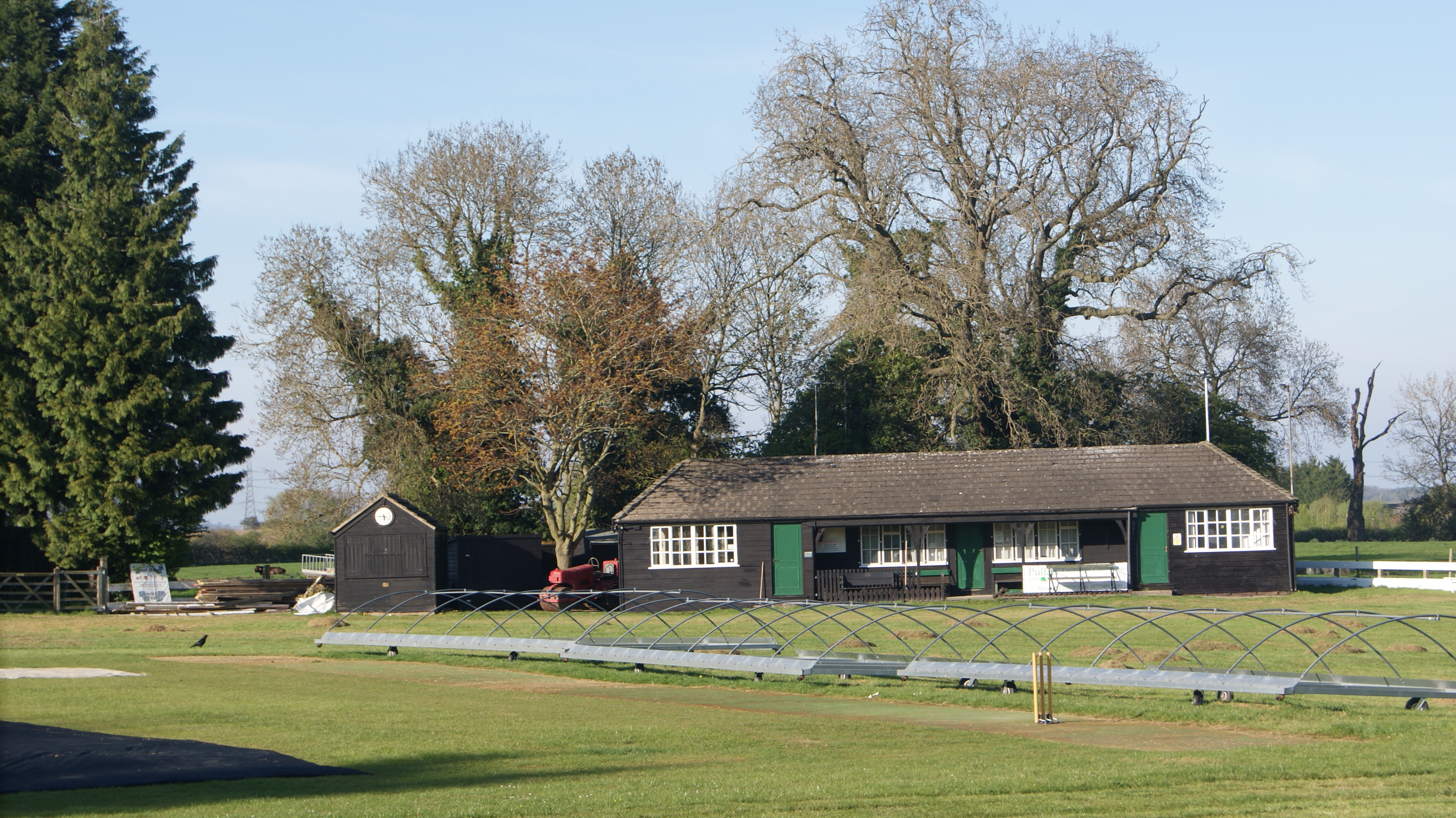 Kirk Deighton Cricket Club, Mark Lane, Kirk Deighton, North Yorkshire. Taken on the afternoon of Thursday the 16th of April 2020.